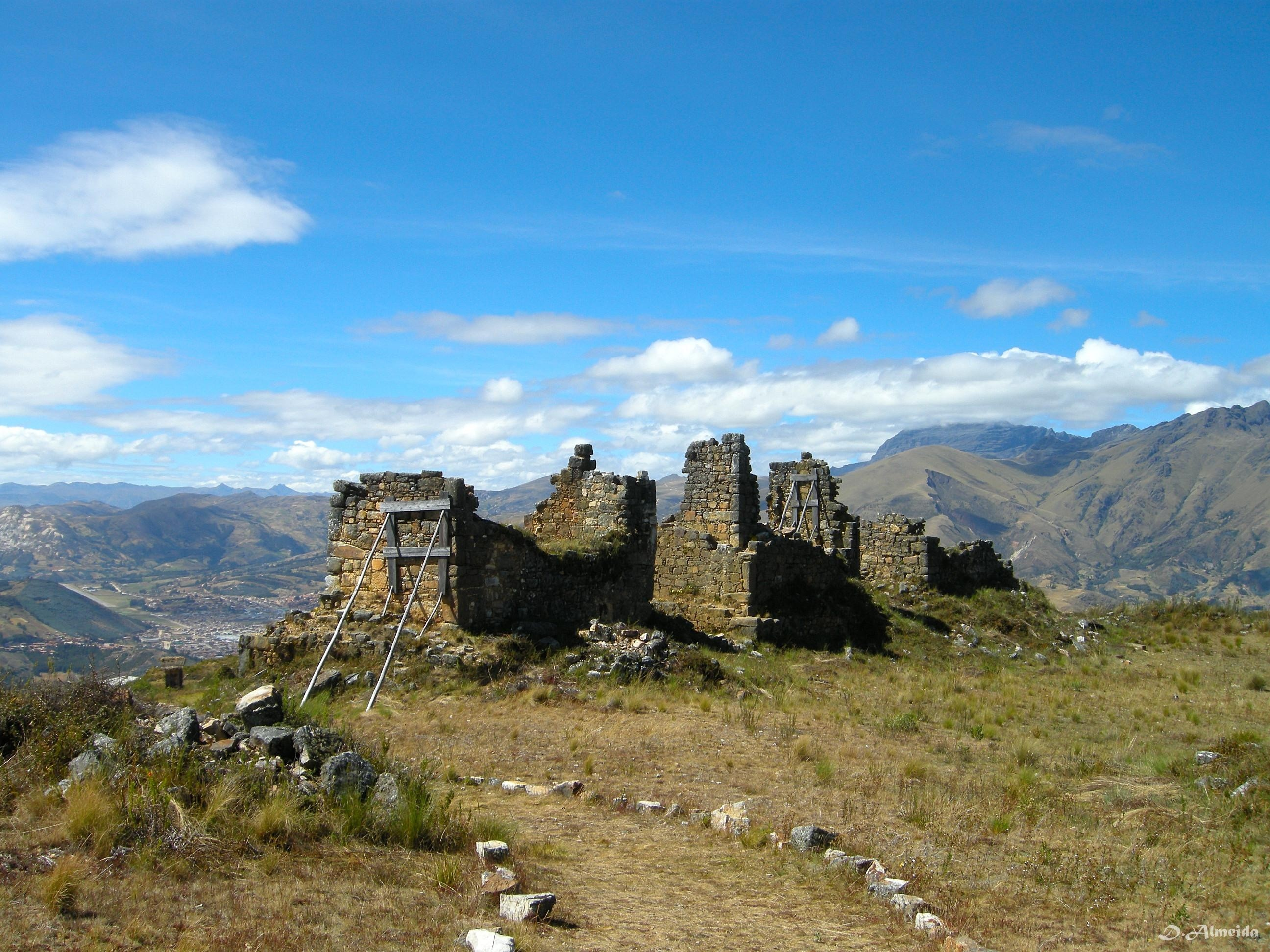 Ruins of Marcahuamachuco. One of Peru's most amazing archaeological sites, located in the northern highlands in the departamento of La Libertad (7 hours by bus ride from Trujillo). Marcahuamachuco dates back from 400 to 1000 A.D.